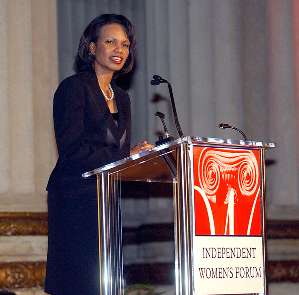 This photograph of Condi Rice is the work of a government agency and is thus in the public domain. Taken from [1].